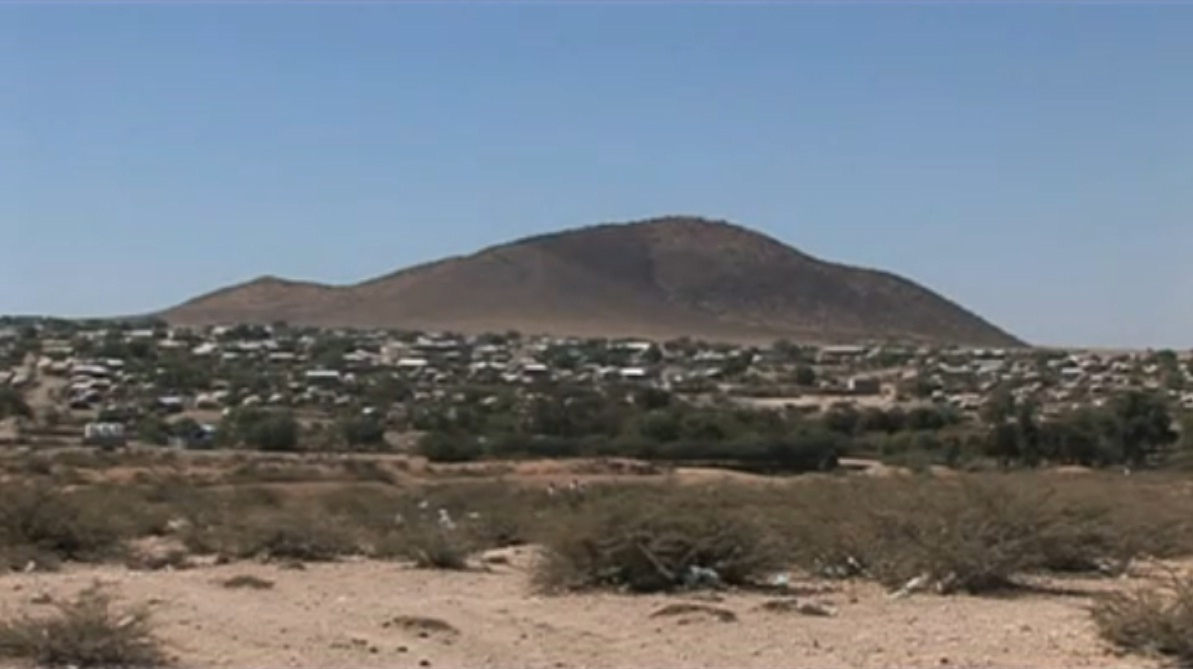 Awbere town